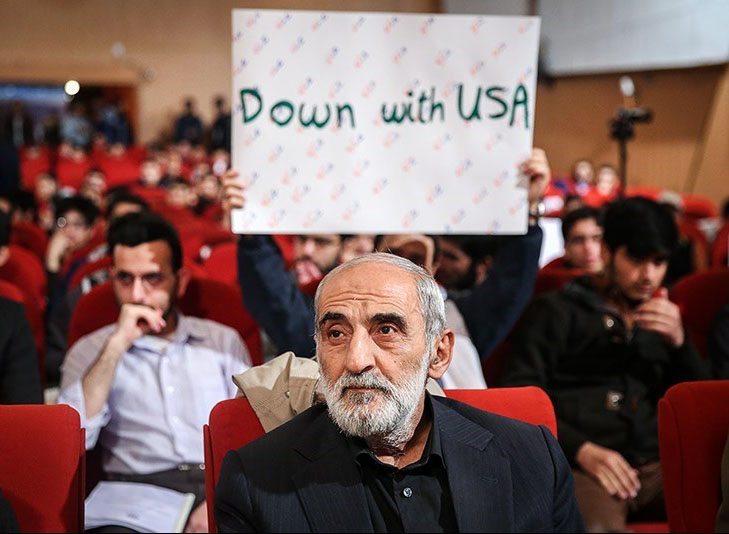 Hossein Shariatmadari warns against the penetration of the enemy after the Joint Comprehensive Plan of Action (JCPOA) for students.